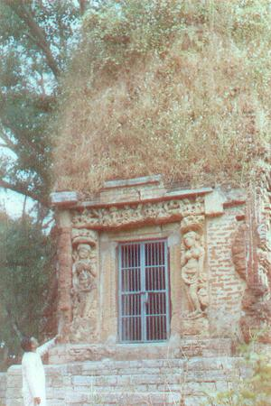 Indaldev Temple, Kharod, Chhatisgarh, India